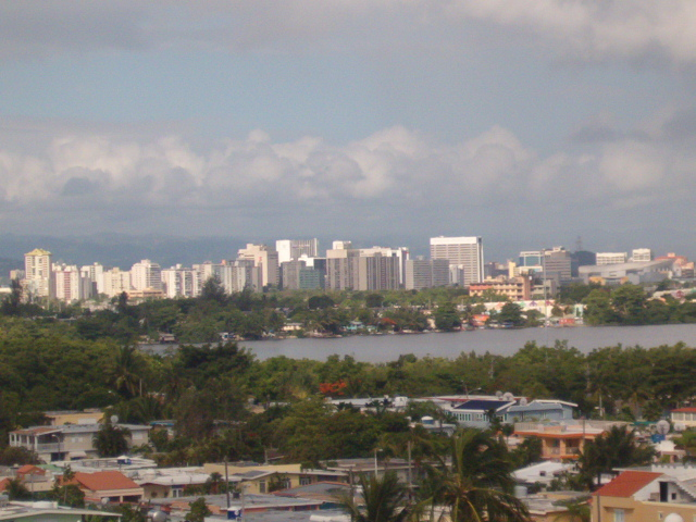 Skyline of San Juan's Central Business District, also known as Hato Rey, or "The Golden Mile".